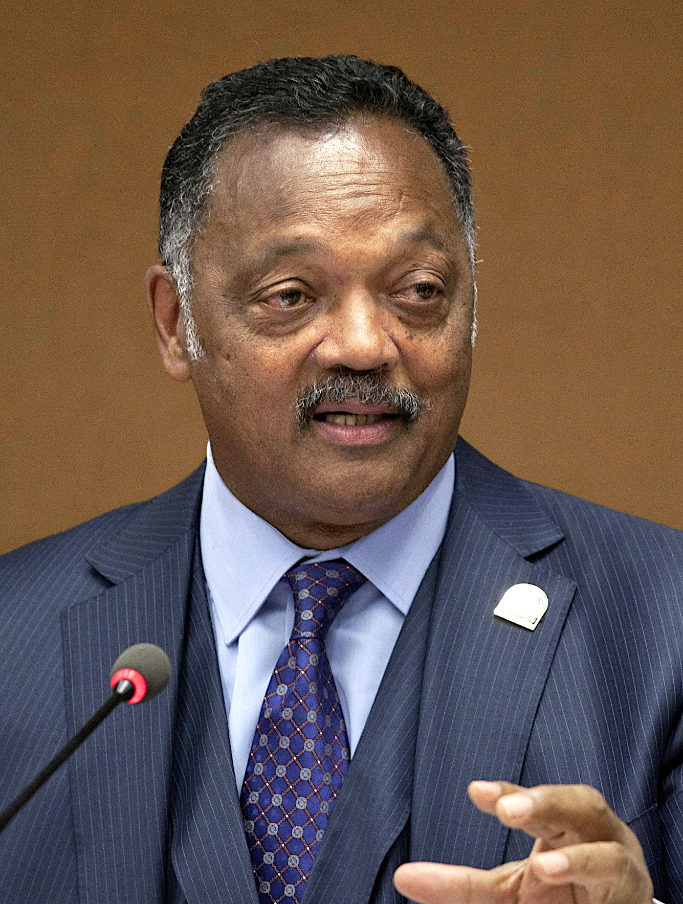 Reverend Jesse Jackson spoke at the UN today for the International Day for the Elimination of Racial Discrimination. In his remarks, Reverend Jackson highlighted the importance of freedom of expression in the fight for human rights and to combat racial discrimination. U.S. Mission photo by Eric Bridiers